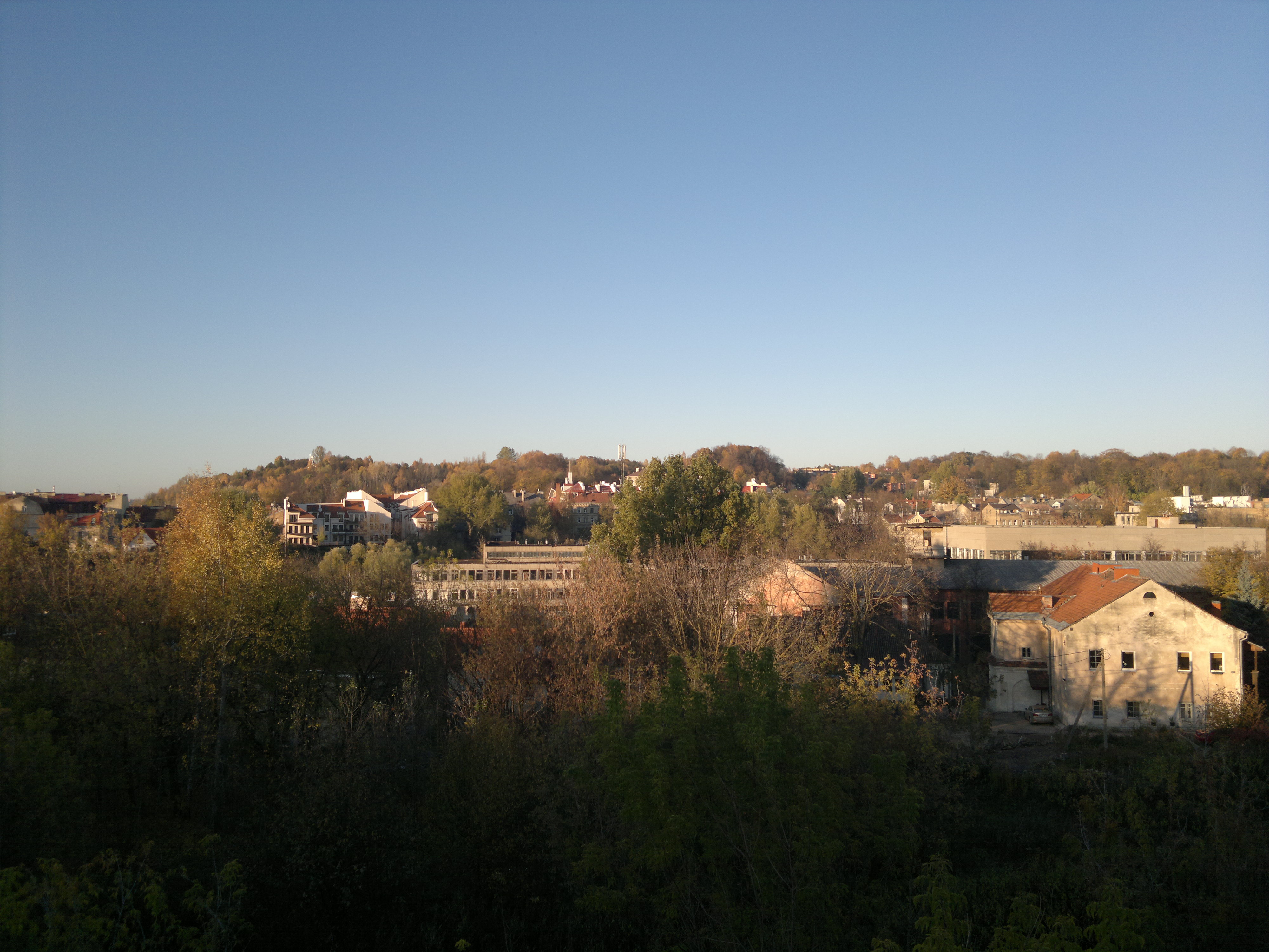 Skaiteks territory